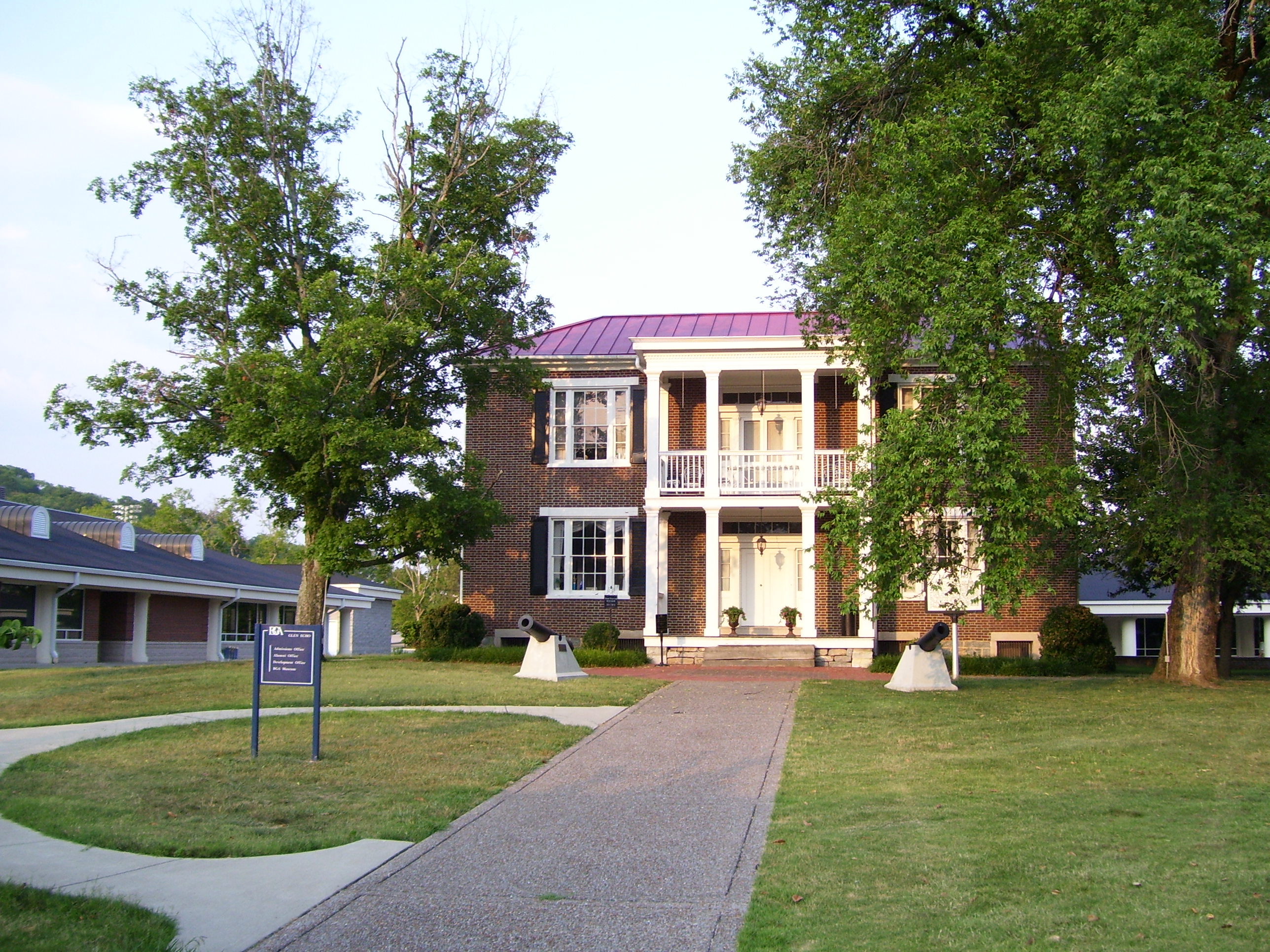 Glen Echo Mansion, a former plantation house that is now the centerpiece and administrative office of the Battle Ground Academy campus in Franklin, Tennessee. Taken by ProhibitOnions, 2007.